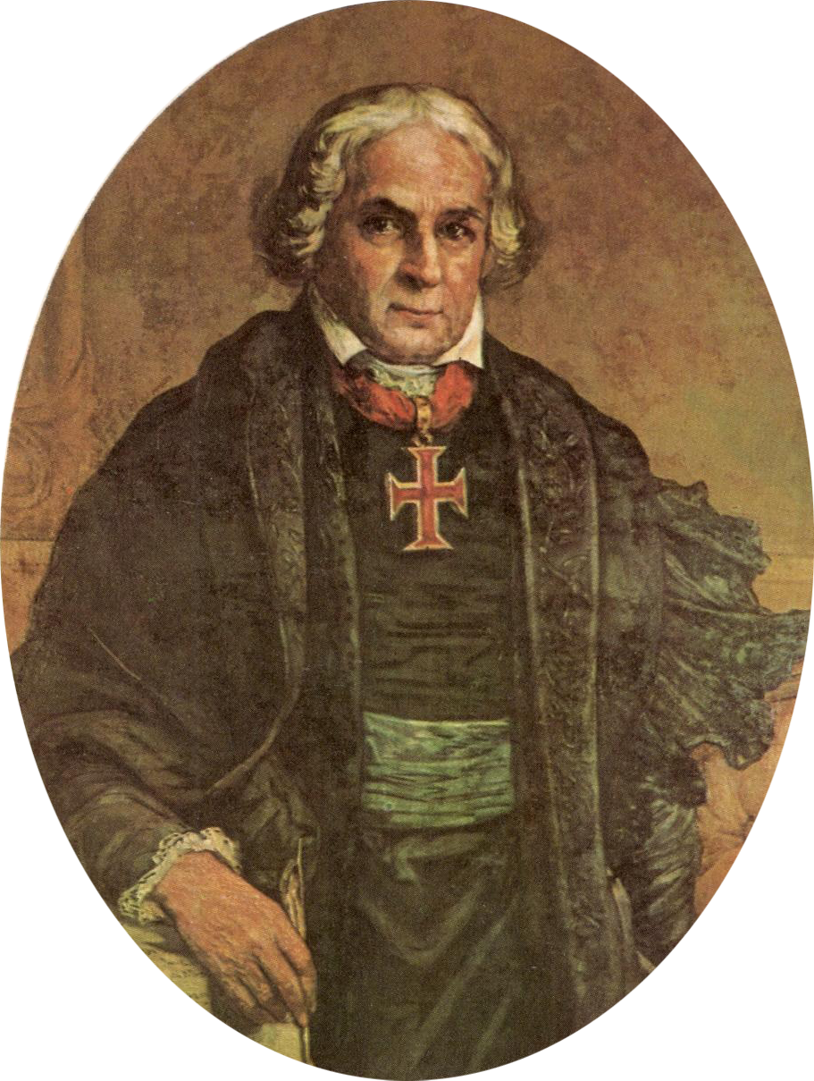 José Bonifácio de Andrada e Silva, Brazilian politician.